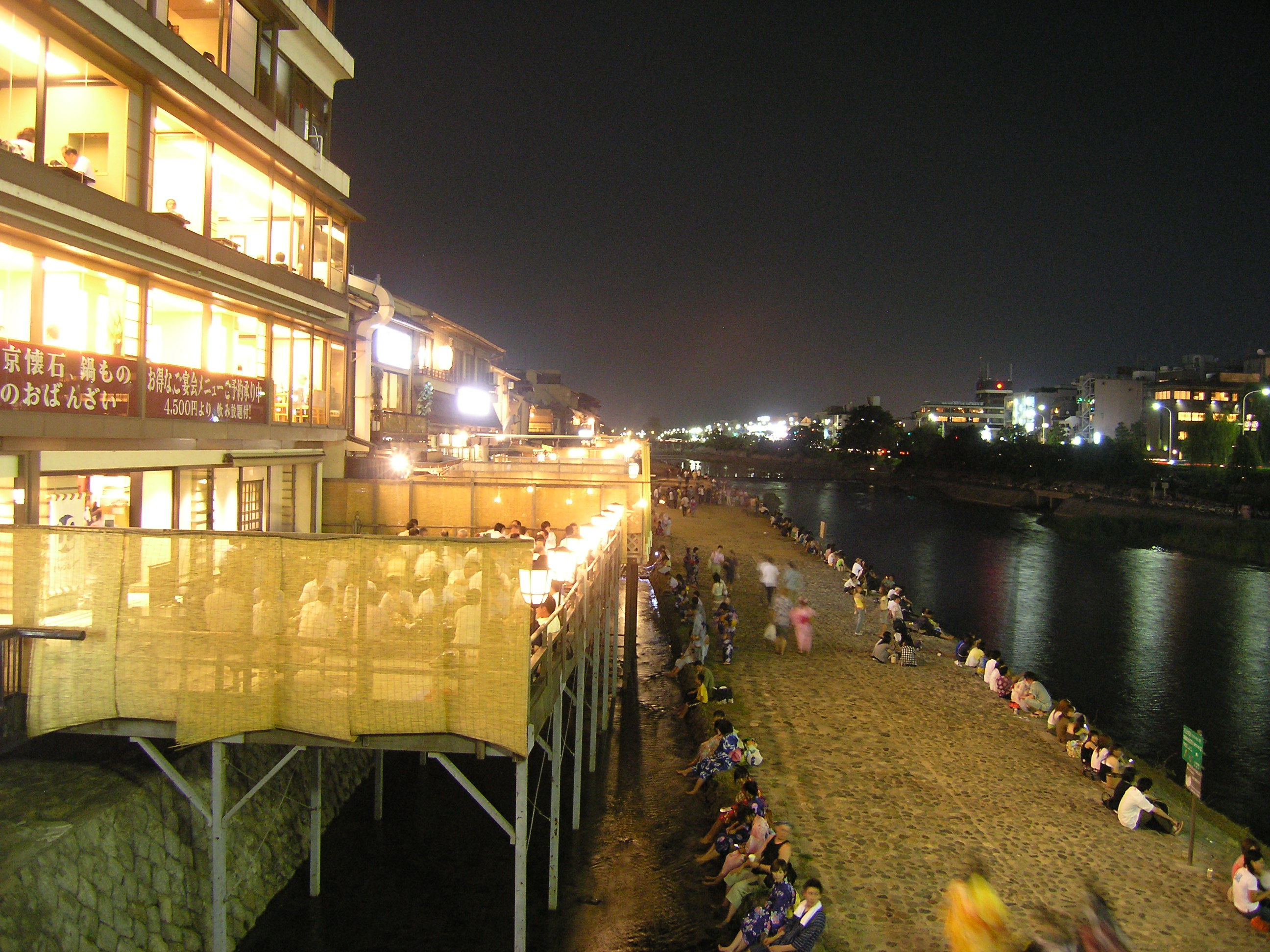 See where this picture was taken on ［地図を表示］